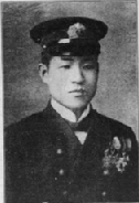 Tyusuke Shimomura is an Imperial Japanese Navy commander